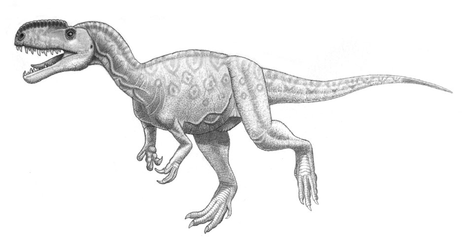 Sketch of Monolophosaurus jiangi, a theropod Dinosaur from the Middle Jurassic of China with a median "crest" on the skull.